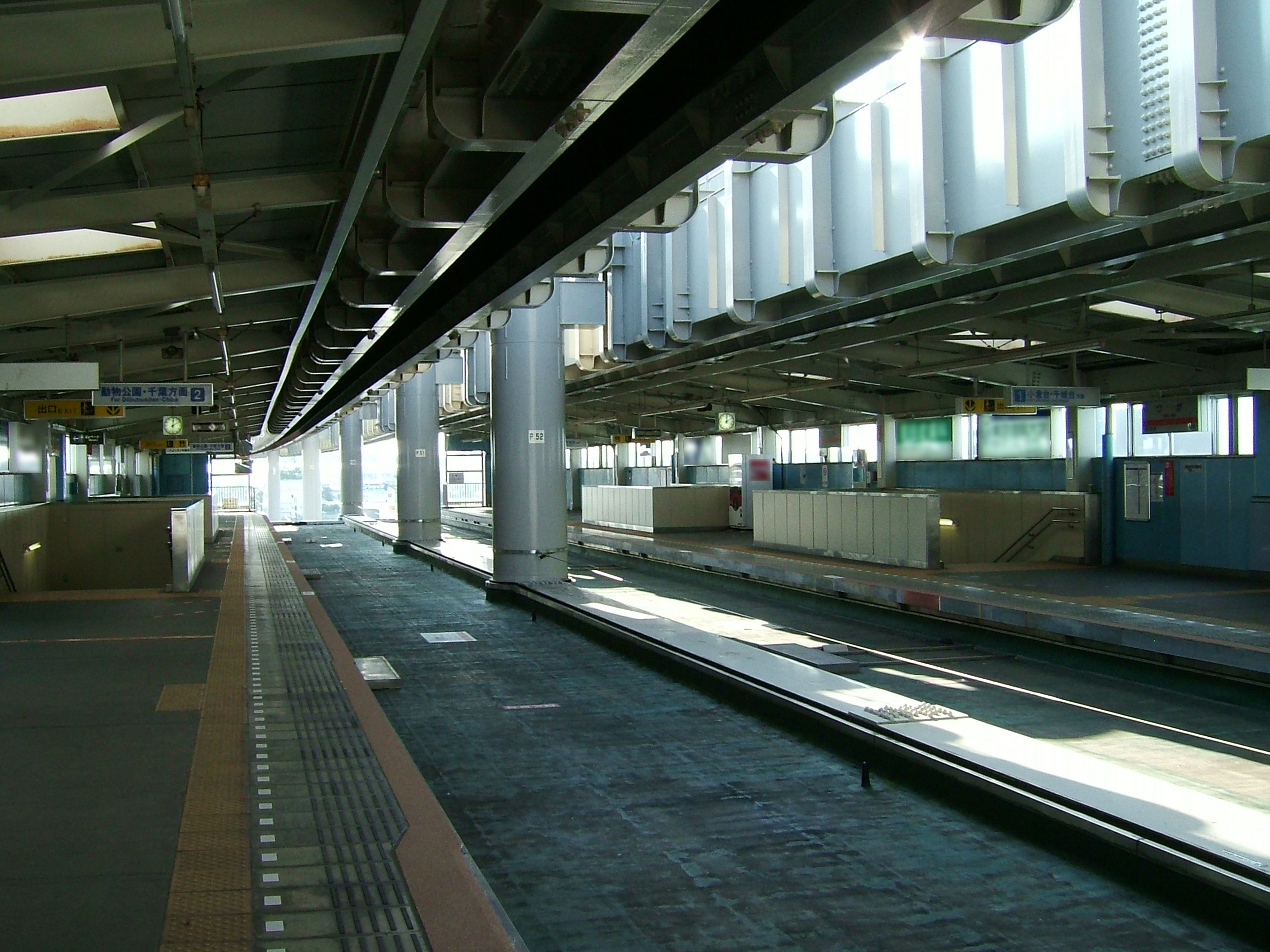 The platforms at Tsuga Station on the Chiba Urban Monorail in Chiba city, Chiba prefecture, Japan